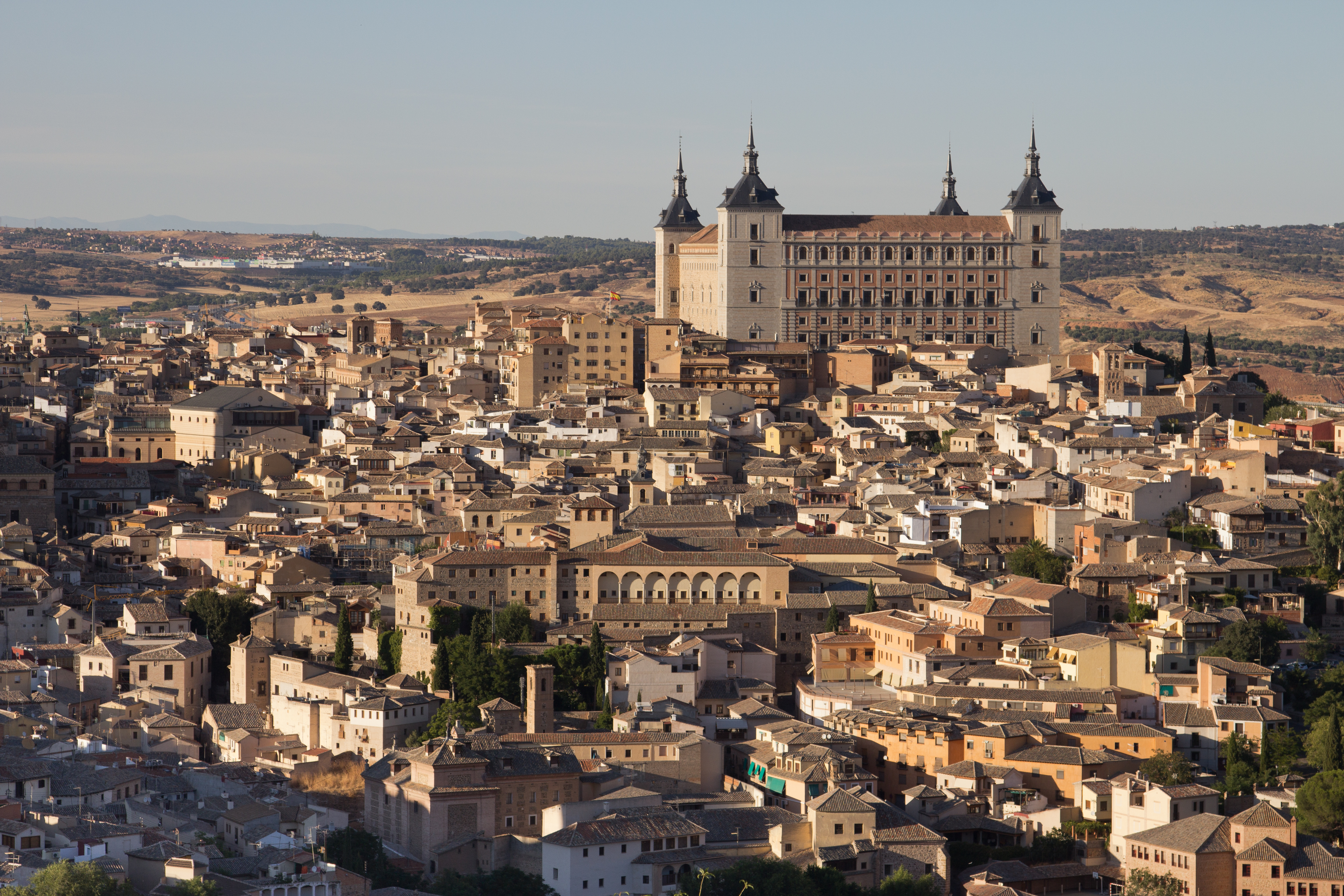 View of Toledo, Spain.